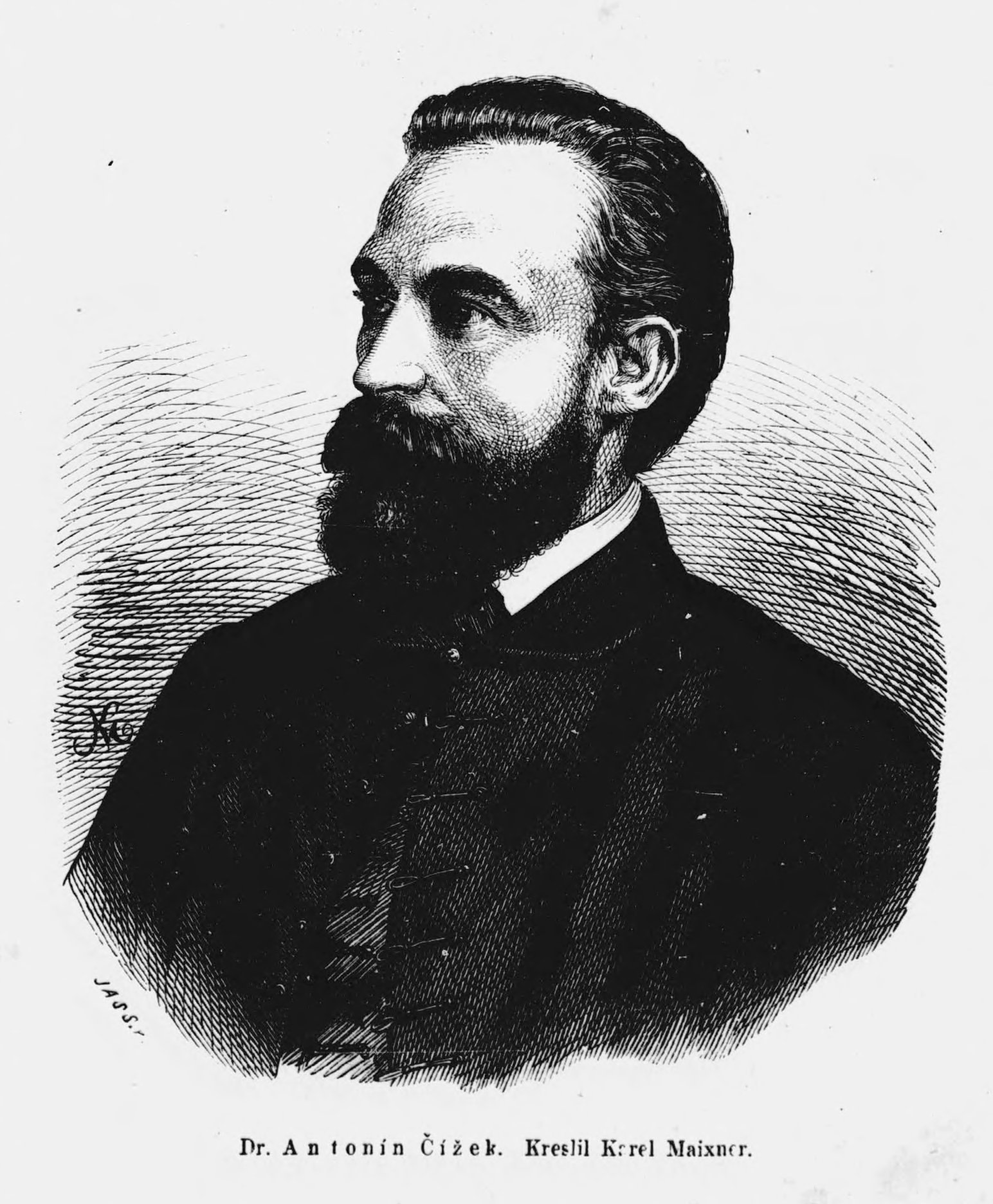 Portrait of Antonín Čížek (1833-1883), Czech lawyer and politician.